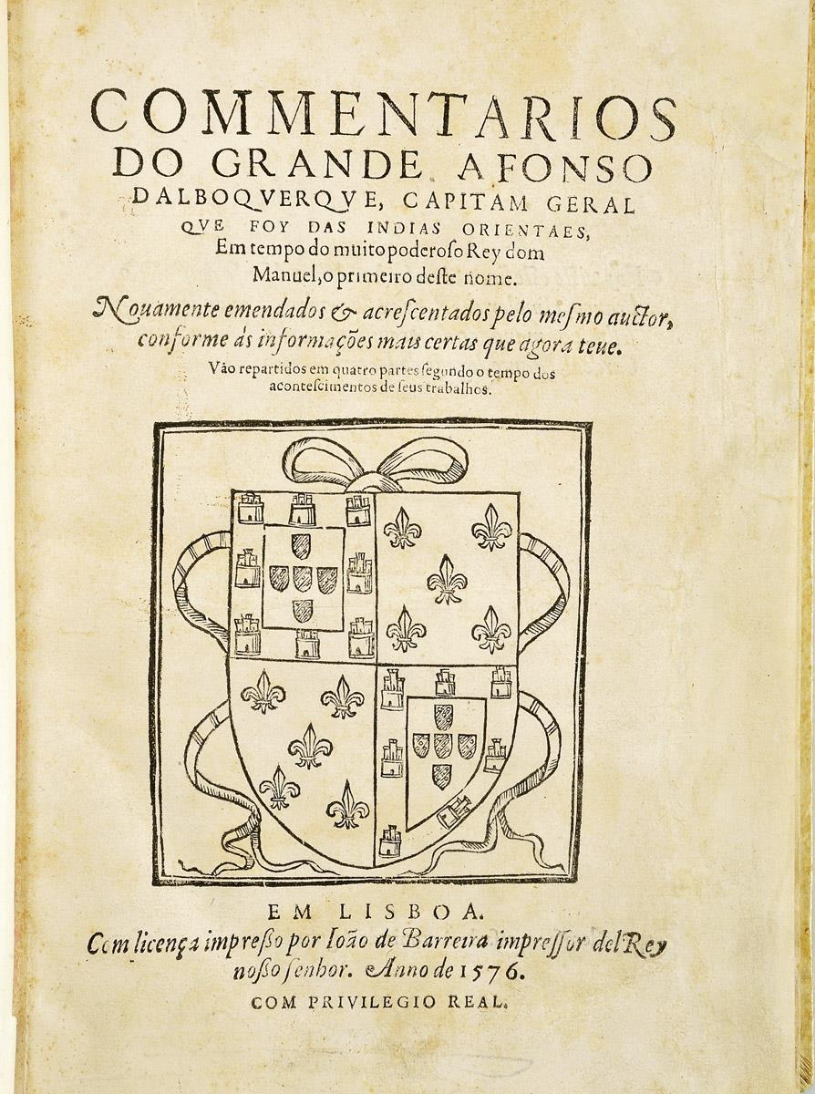 Capa de Comentários do Grande Afonso Dalboquerque